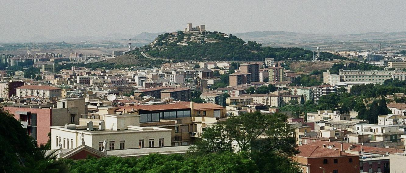 Castle of San Michele in Cagliari , Sardinia Italy